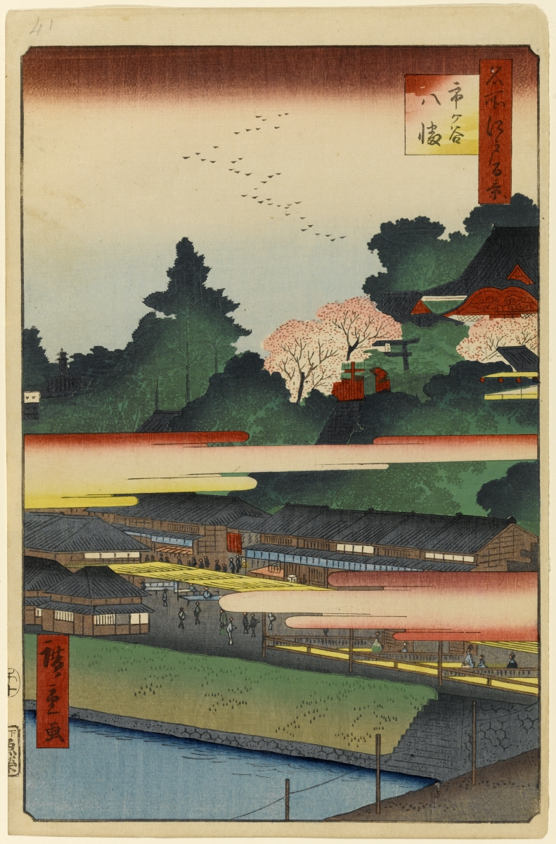 Part of the series One Hundred Famous Views of Edo, no. 041, part 1: Spring.